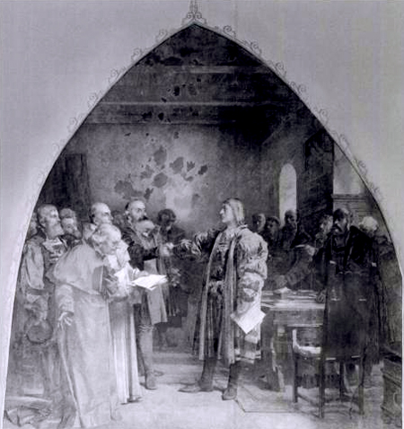 Schieringers in Medemblik asking Hertog Albrecht for protection, March 1498